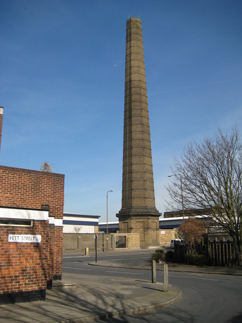 Woolwich Dockyard chimney The chimney was built between 1837 and 1843 to take away emissions from the blacksmiths' fires in the foundry. A description of the chimney in The Times in 1847 describes it as being ten feet higher than The Monument, which is exactly 202 feet high. It is on the north side of Woolwich Church Street.